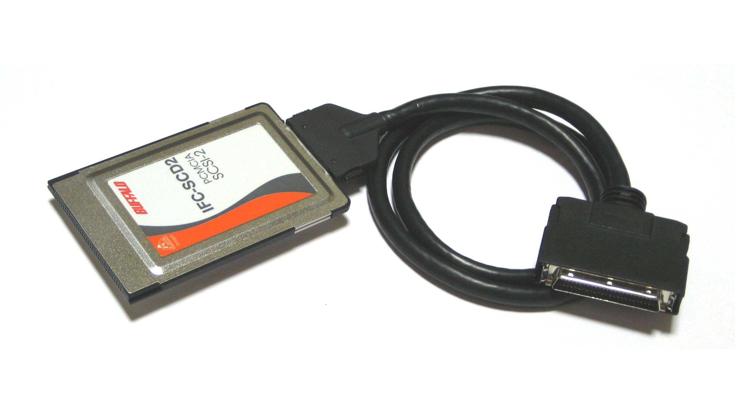 Buffalo IFC-SCD2 is a PCMCIA SCSI card.